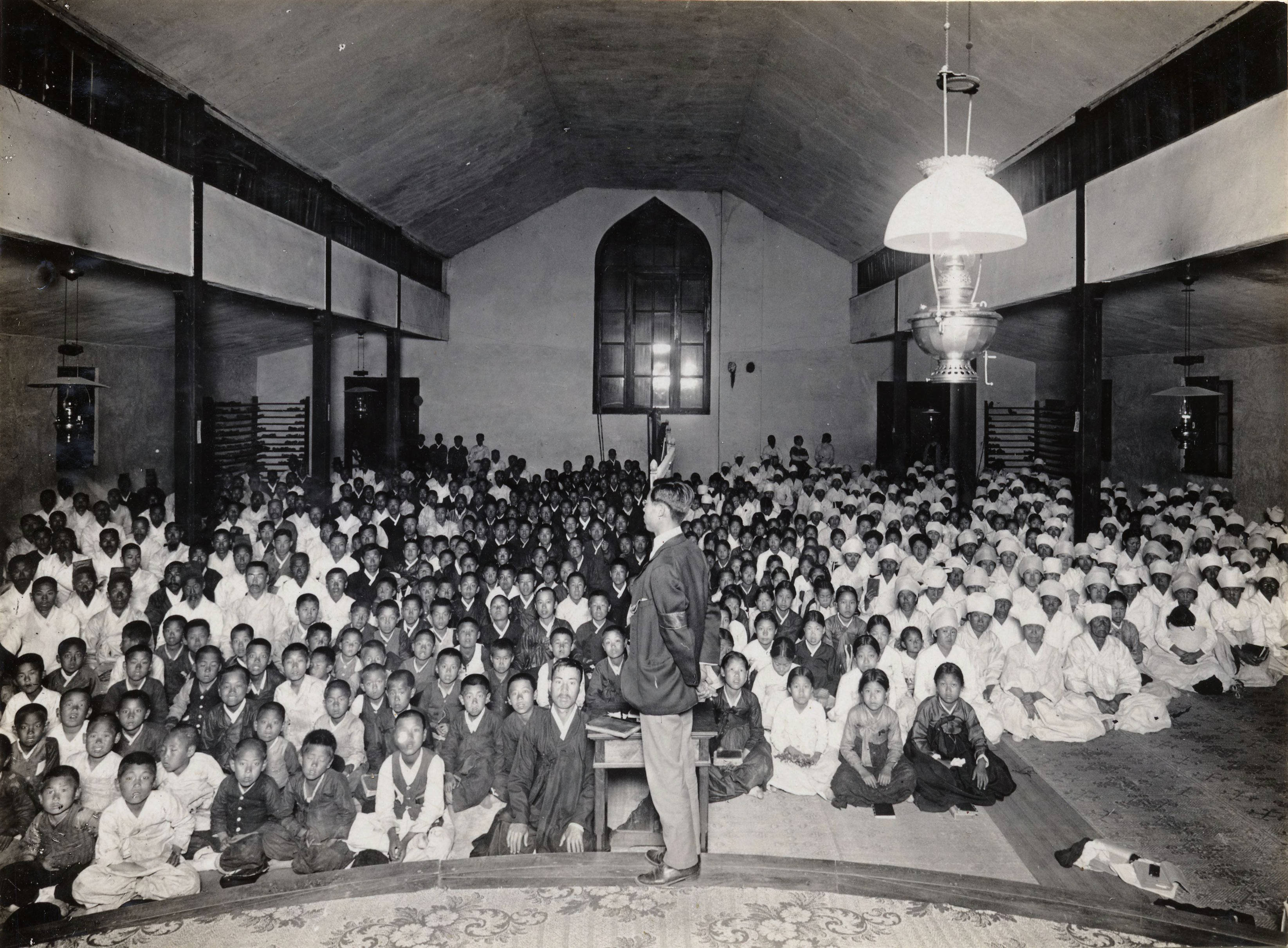 Prayer meeting, Pyeng Yang, [s.d.] This is a flash-lit photo taken at the regular weekly prayer meeting in PyengYang, where the average attendance is about 500 persons. Date created: 1908/1922 Publisher (of the Digital Version): University of Southern California. Libraries Repository Name: Methodist Church (U.S.) Legacy Record ID: kda-m131 Photographer: Methodist Episcopal Church Format: photograph Archival file: kda_Volume42/Taylor_box21num64.jpg Rights: "Neither the General Conference nor any General Agency of The United Methodist Church (successor to the Methodist Episcopal Church) claims any interest in the photos or images." Part of subcollection: The Reverend Corwin & Nellie Taylor Collection Coverage date: 1908/1922 Contributing entity: University of Southern California Repository Address: Nashville, Tennessee Part of collection: Korean Digital Archive Donor: Taylor, Ewing Bevard Filename: Taylor_box21num64 Type: images Geographic Subject (City or Populated Place): P'yongyang Geographic Subject (Country): Korea Compiler: Taylor, Corwin; Blood-Taylor, Nellie